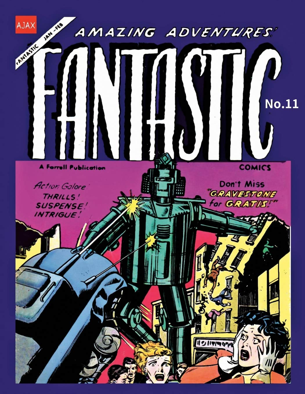 Cover of Fantastic Comics issue 11. January/February, 1955.